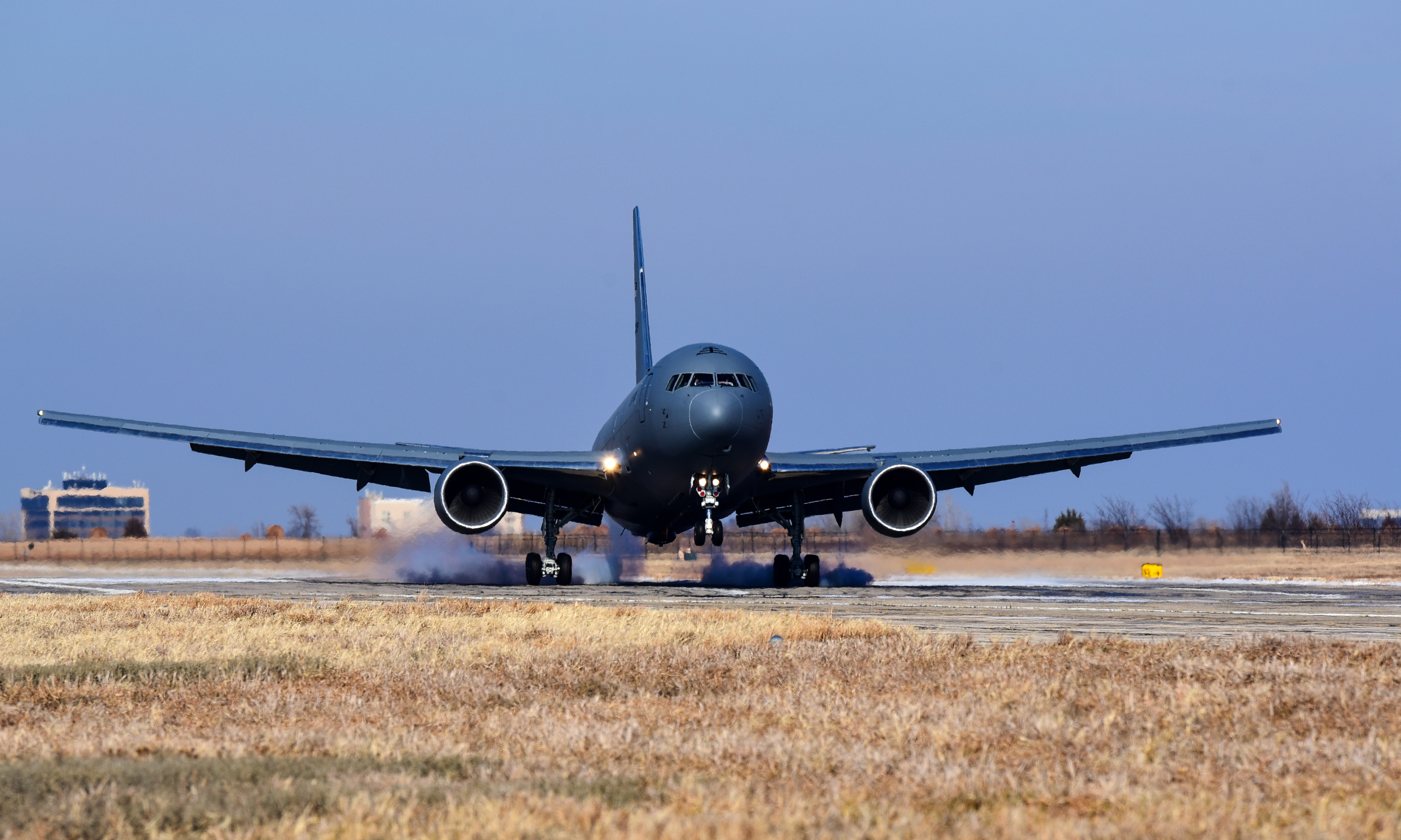 The first KC-46A Pegasus (15-46009) lands on the flightline Jan. 25, 2019, at McConnell Air Force Base, Kansas. The KC-46 will serve alongside the KC-135 Stratotanker at McConnell AFB and supply critical aerial refueling, airlift and aeromedical evacuations at a moment’s notice for America’s military and allies. (U.S. Air Force photo by Airman 1st Class Alan Ricker)